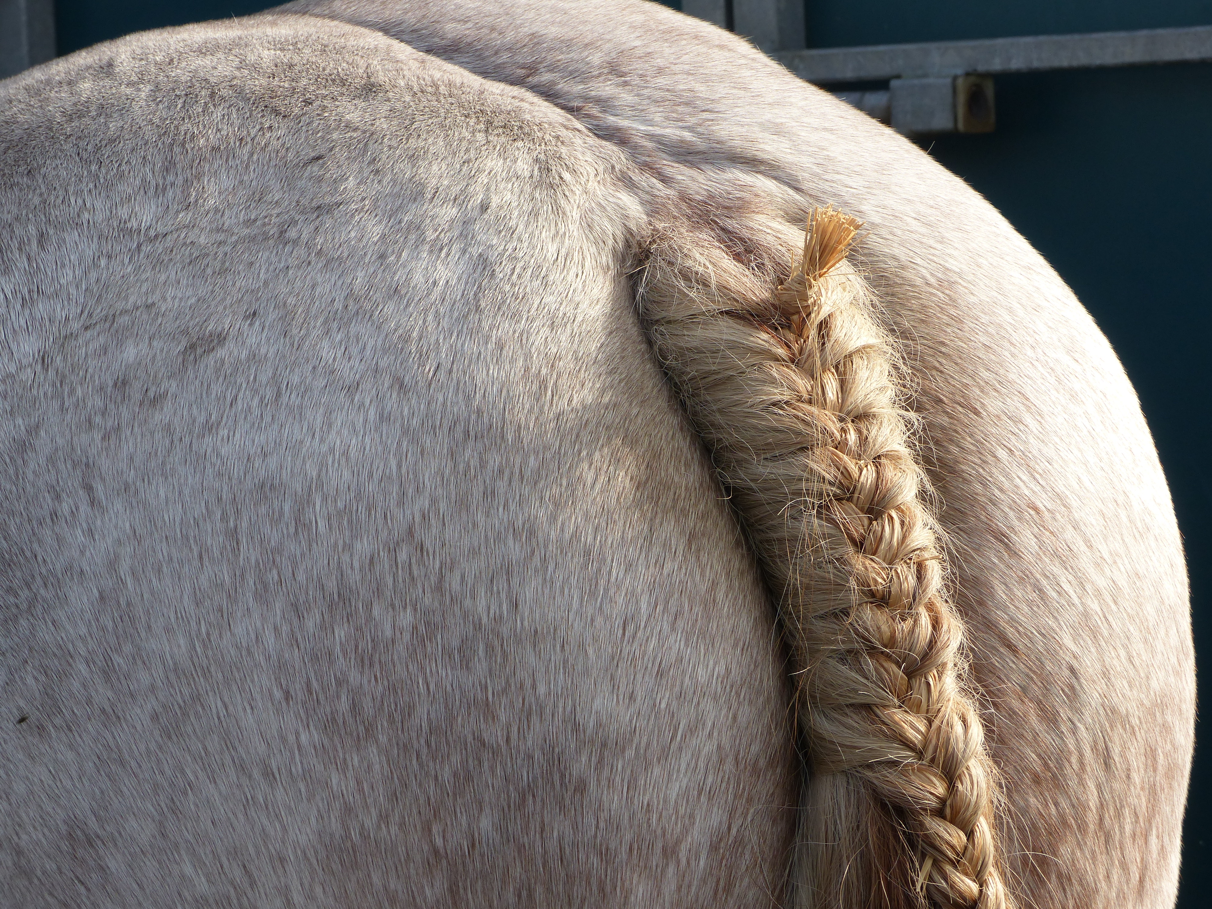 Breton mare rump, strawberry roan coat color, with braided tail, at Pontivy, Brittany, 2017